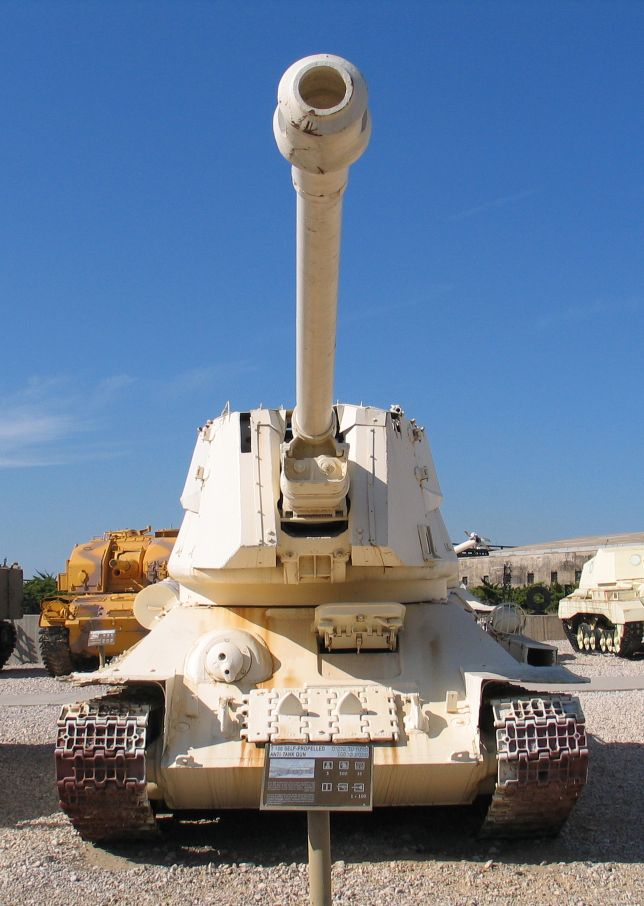 Description: Captured Egyptian T-100 tank destroyer in Yad la-Shiryon Museum, Israel. 2005. Source: Photo by me, User:Bukvoed.